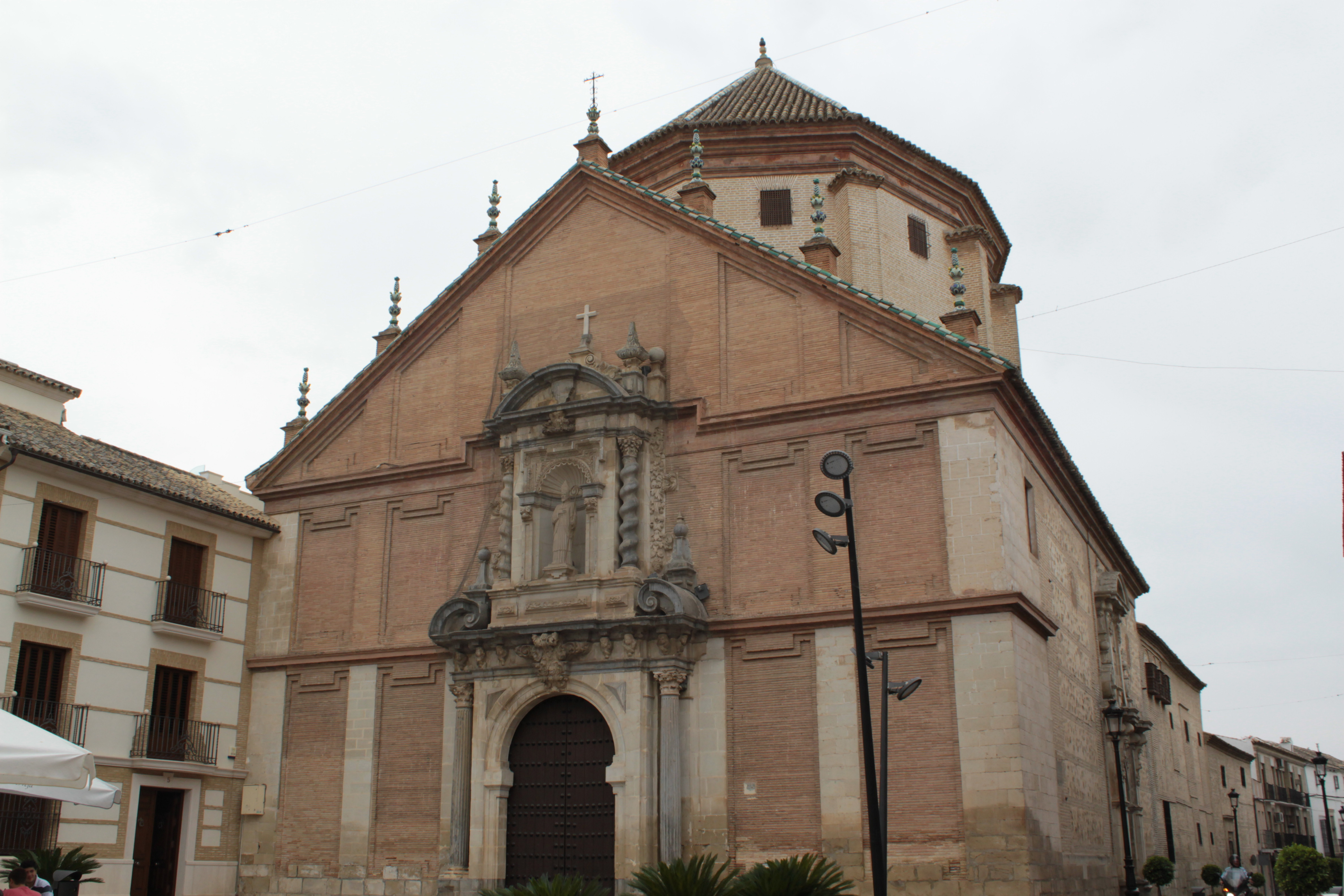 Church of Saint Martin, also known as Saint Augustine, because it belongs to a religious community of nuns of the Order of Augustinian Recollects. Lucena (Spain).